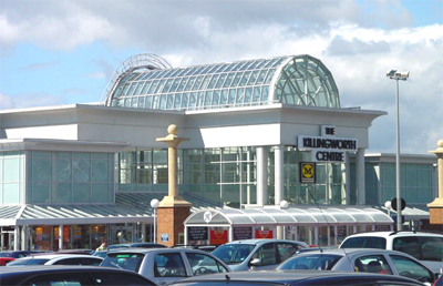 The Killingworth Centre (currently commercial centre of Killingworth, Tyne & Wear, UK.